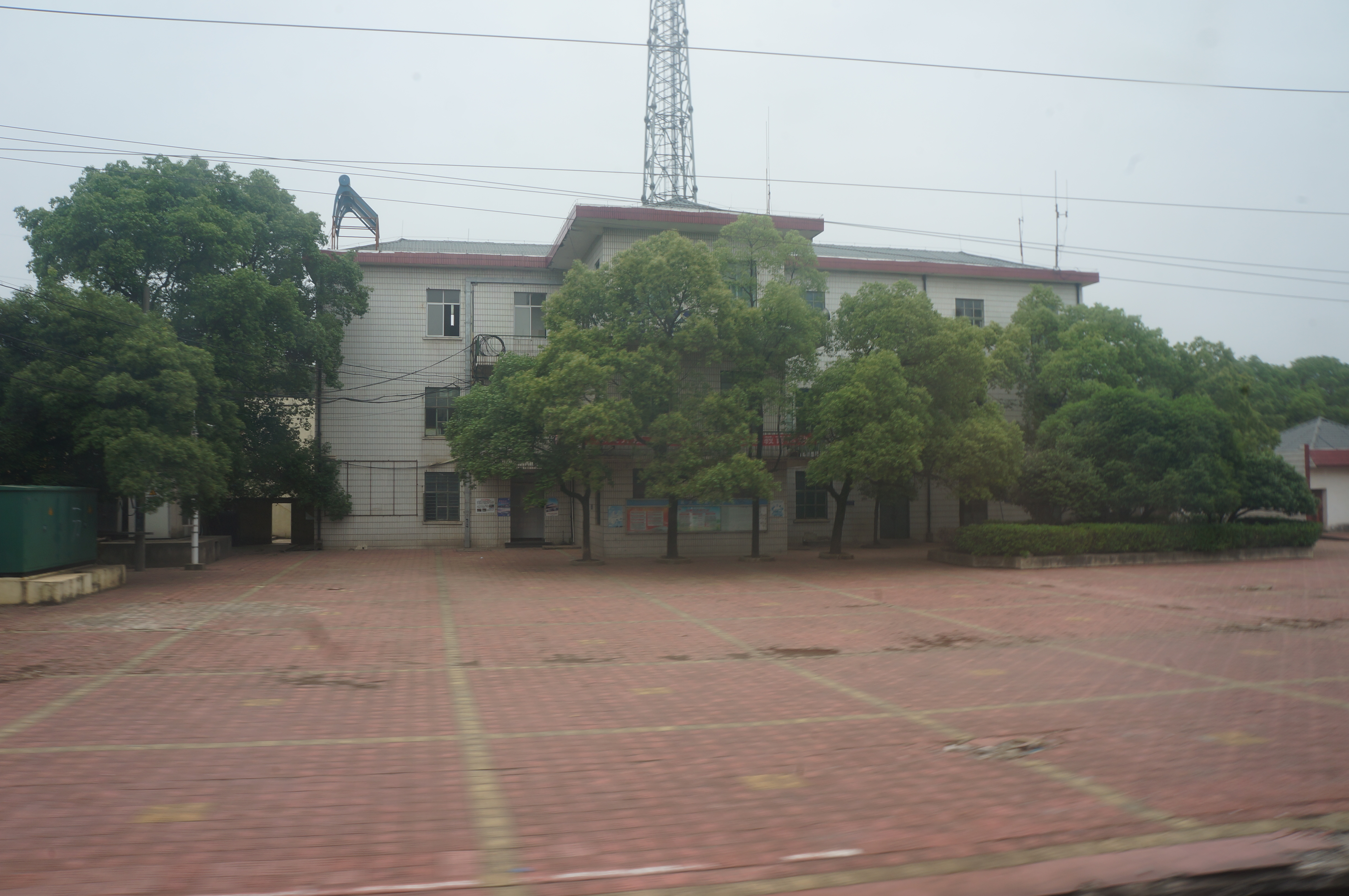 Next Station, Nam Cheong. Interchange Station for the West Rail Line???